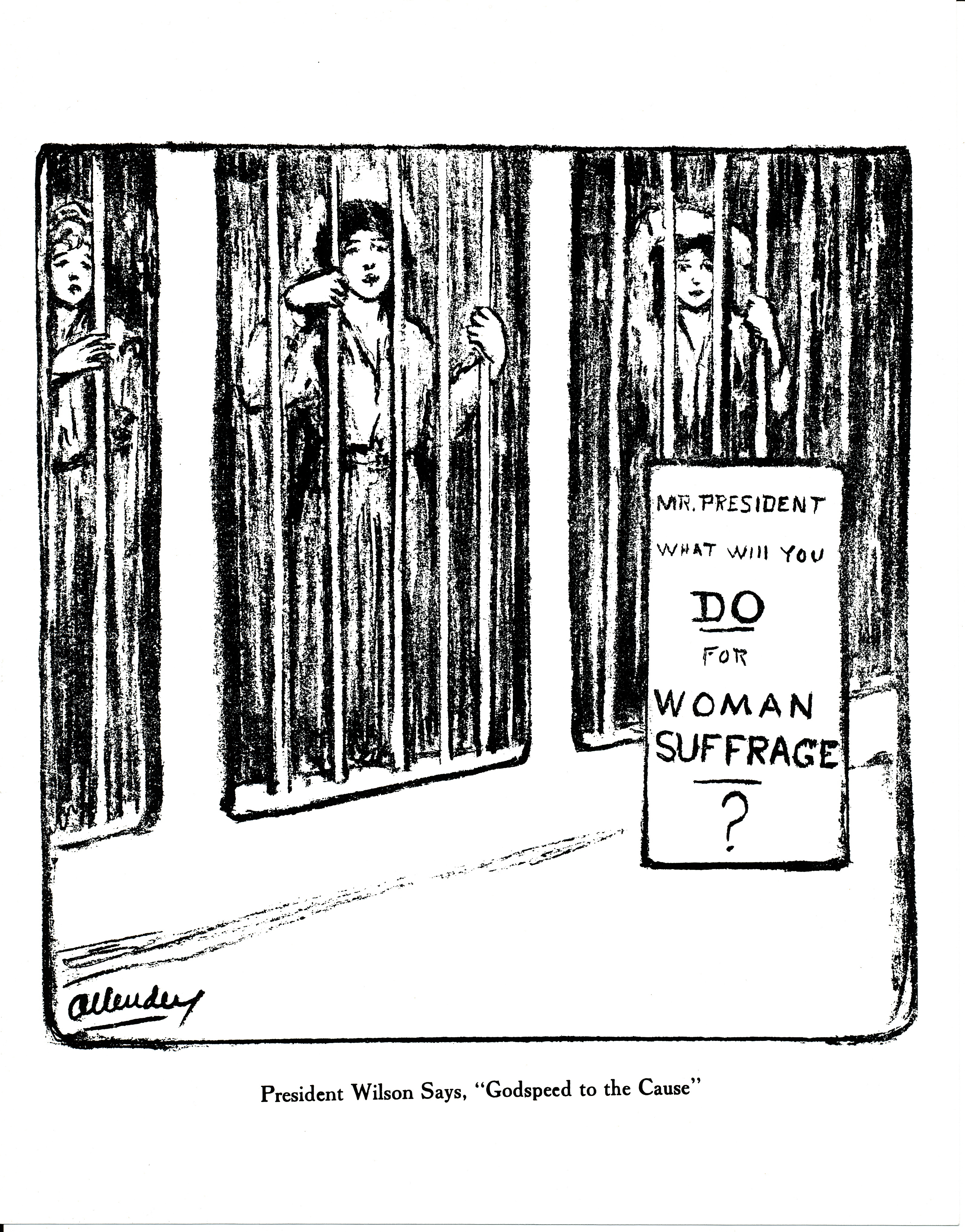 Published in The Suffragist 3 Oct 1917.